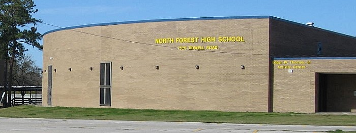 The previous North Forest High School campus at the former Forest Brook High School, in Houston, Texas. The image illustrates the Edgar W. Thomas, Jr. Activity Center. The campus is now used as Forest Brook Middle School.